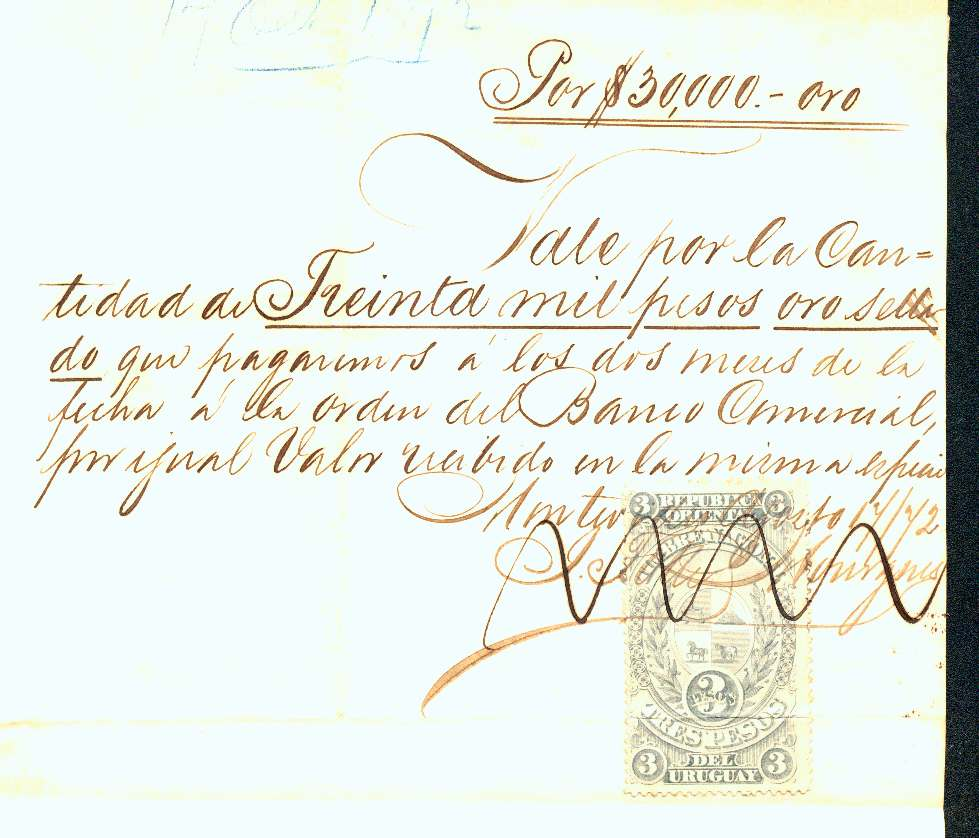 1872 document of Uruguay (cropped) with 1871 3p revenue stamp.